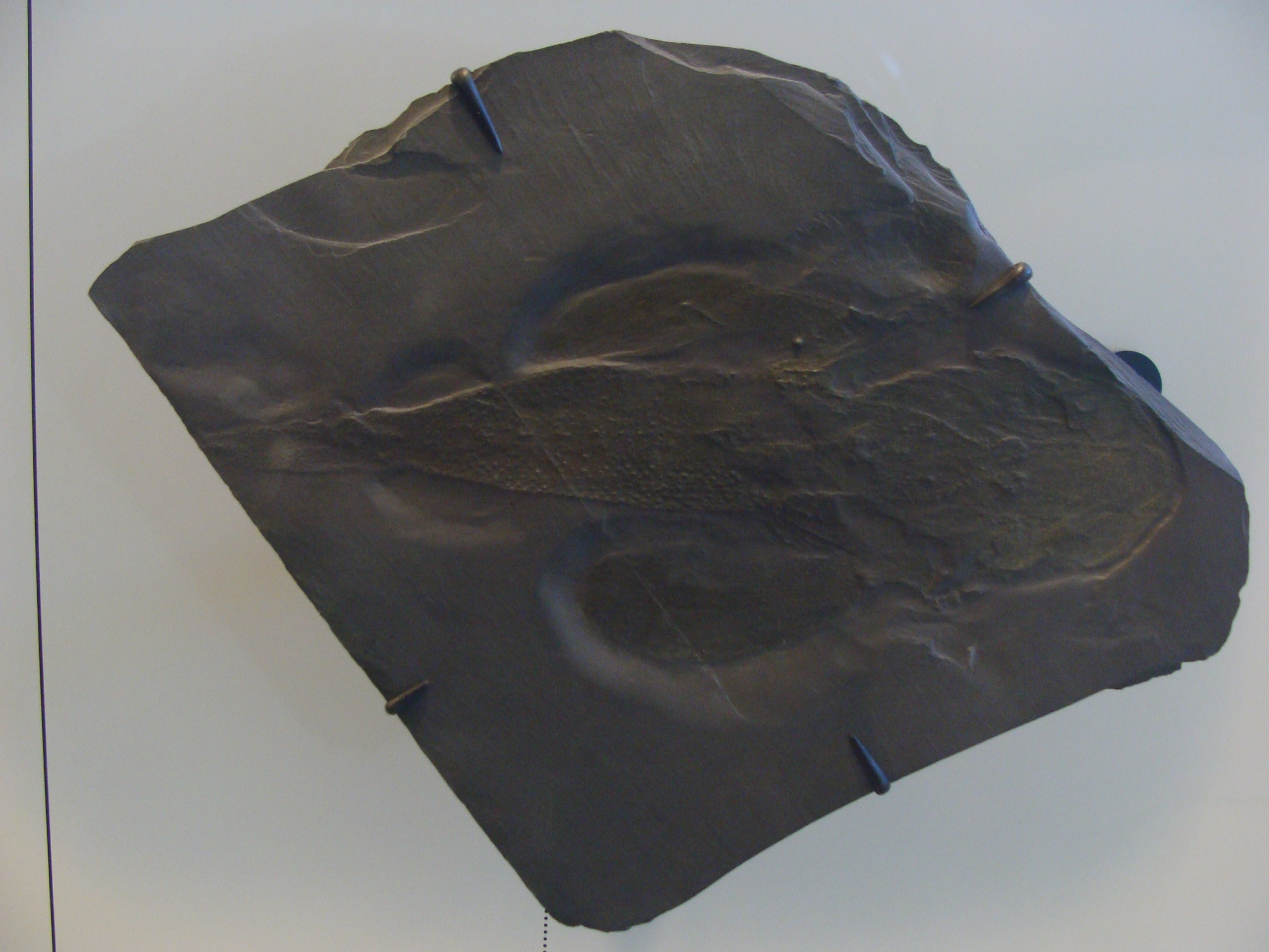 Stensioella in the American Museum of Natural History, New York.